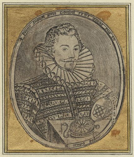 Sir John Harington after a Thomas Cockson engraving (1591).